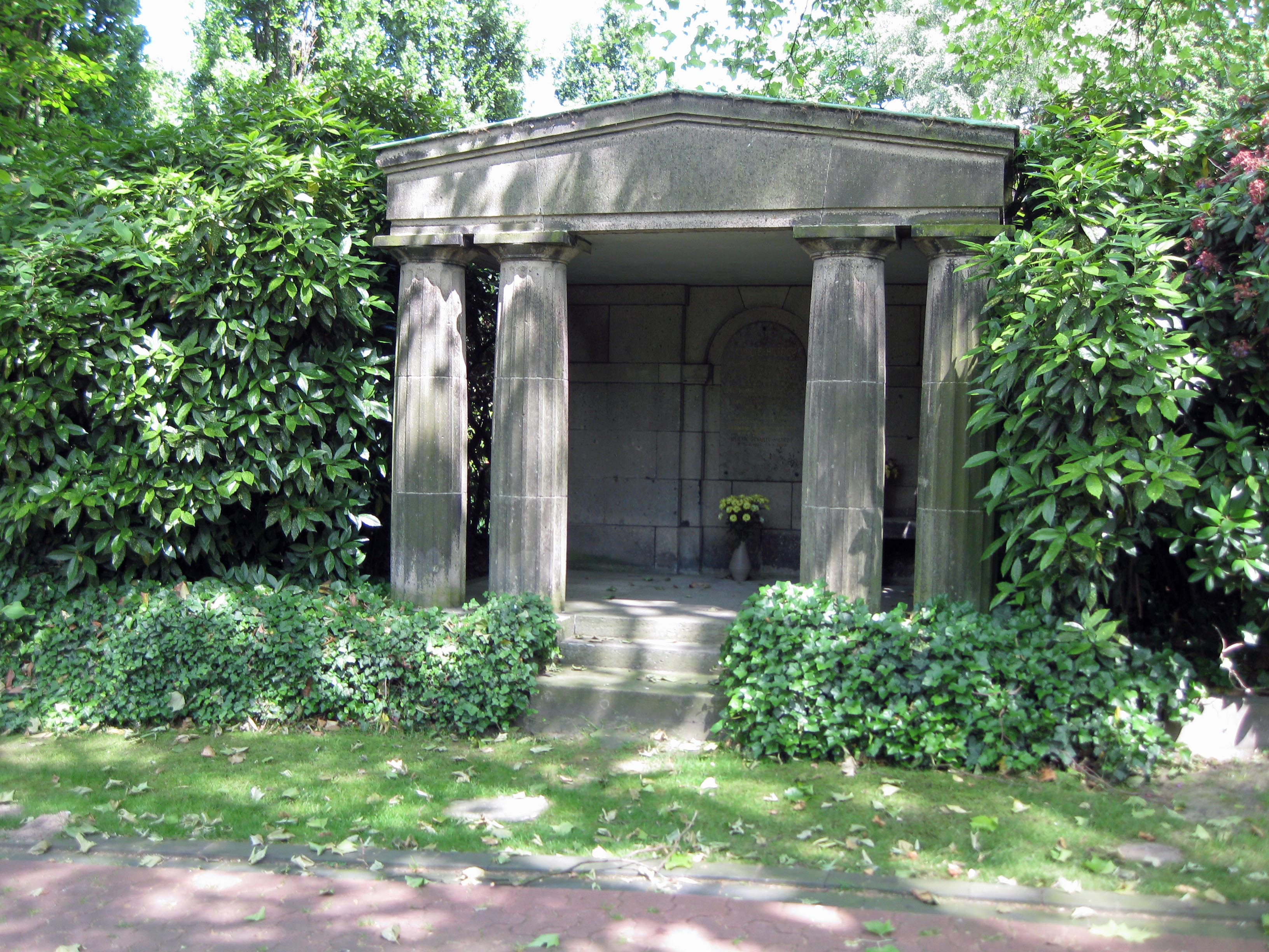 family tomb Schulte-Hiltrop on the south cemetery of the city Herne.